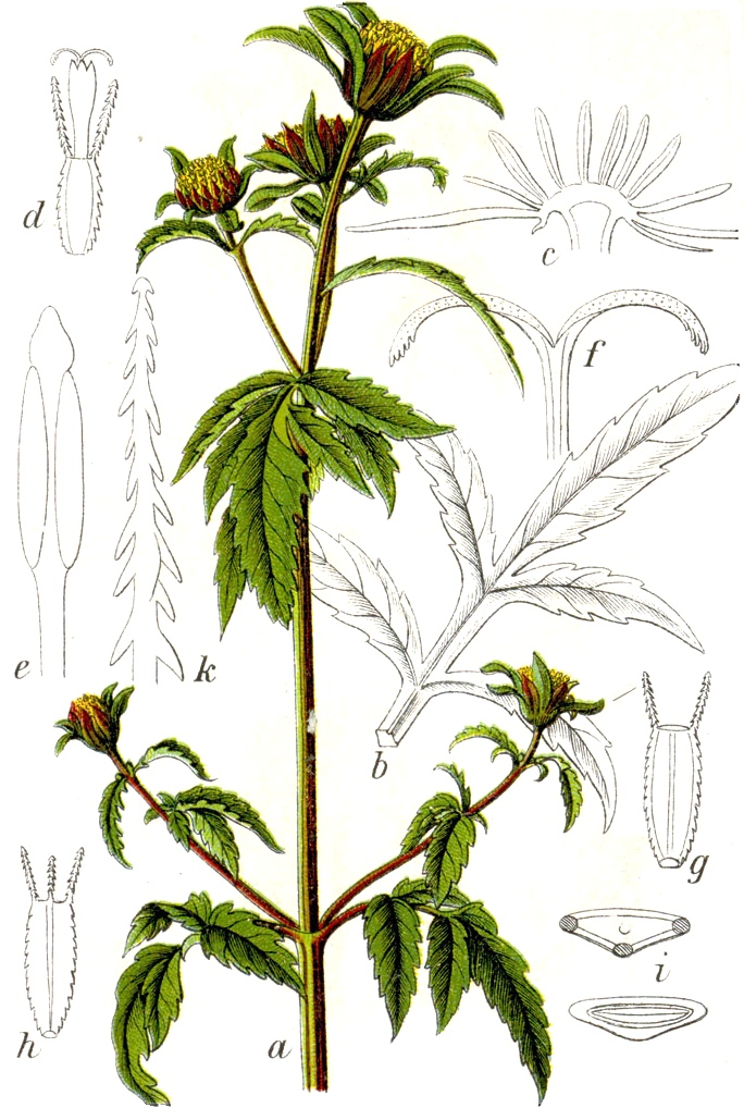 Bidens tripartita L. Original Description Dreiteiliger Zweizahn, Bidens tripartitus